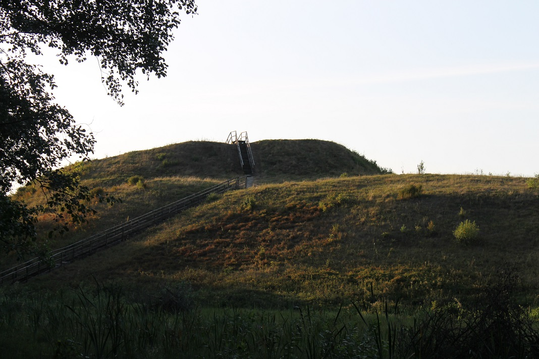 Paveisininkai Hillfort, Lazdijai district, Lithuania